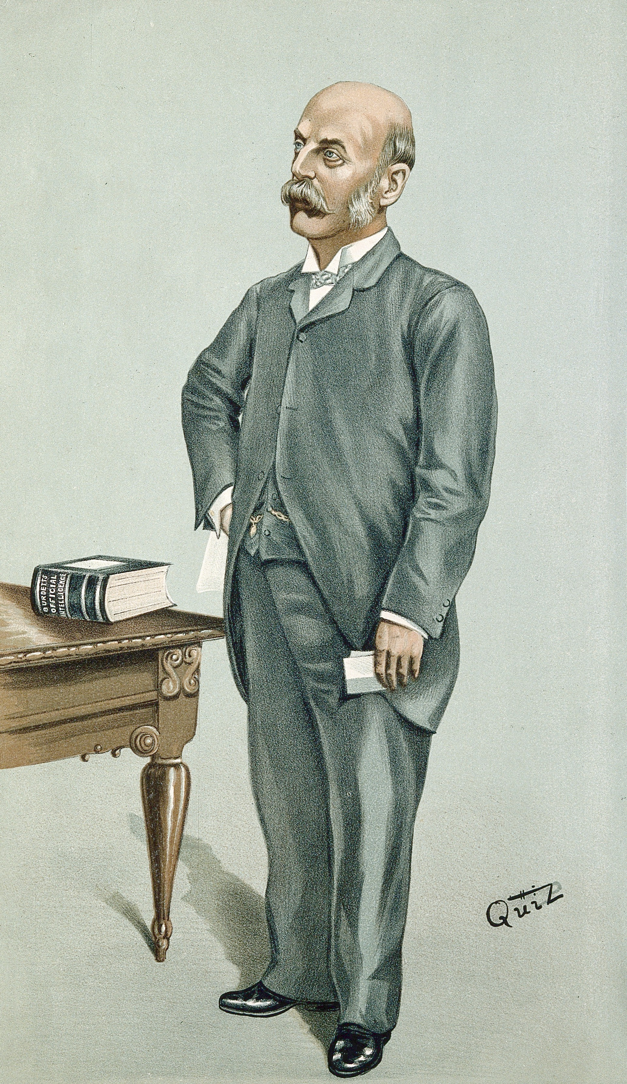 Caricature of Sir Henry Charles Burdett KCB (1847-1920). Caption read "Hospitals".